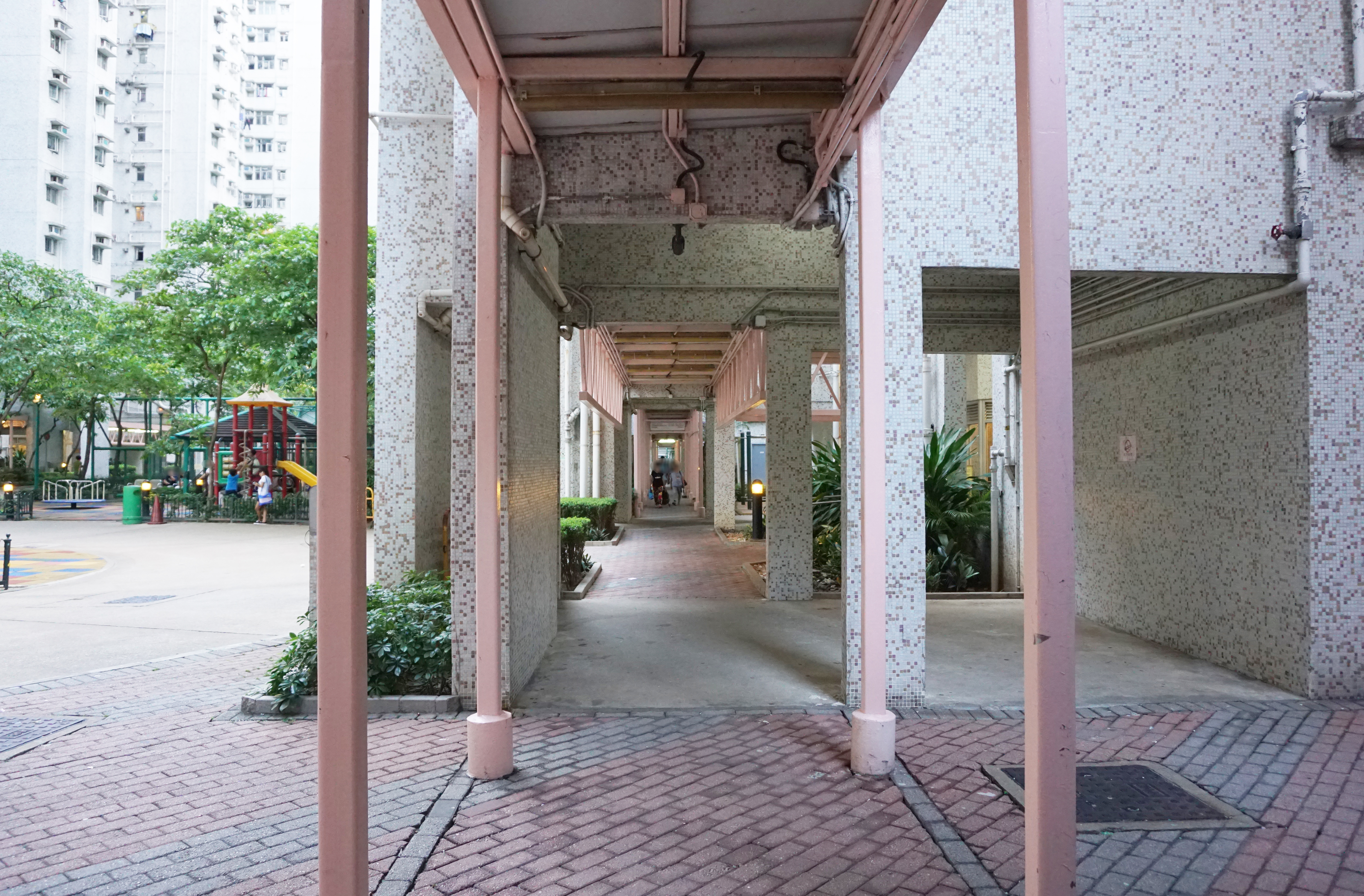 Charming Garden in Mong Kok, Hong Kong.